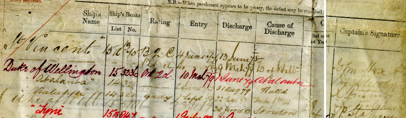 This image is from my Ancestors service record while onboard the HMS Atalanta. I am now the owner of it. He was onboard during the last "completed" training mission. The ship vanished on its next training voyage.